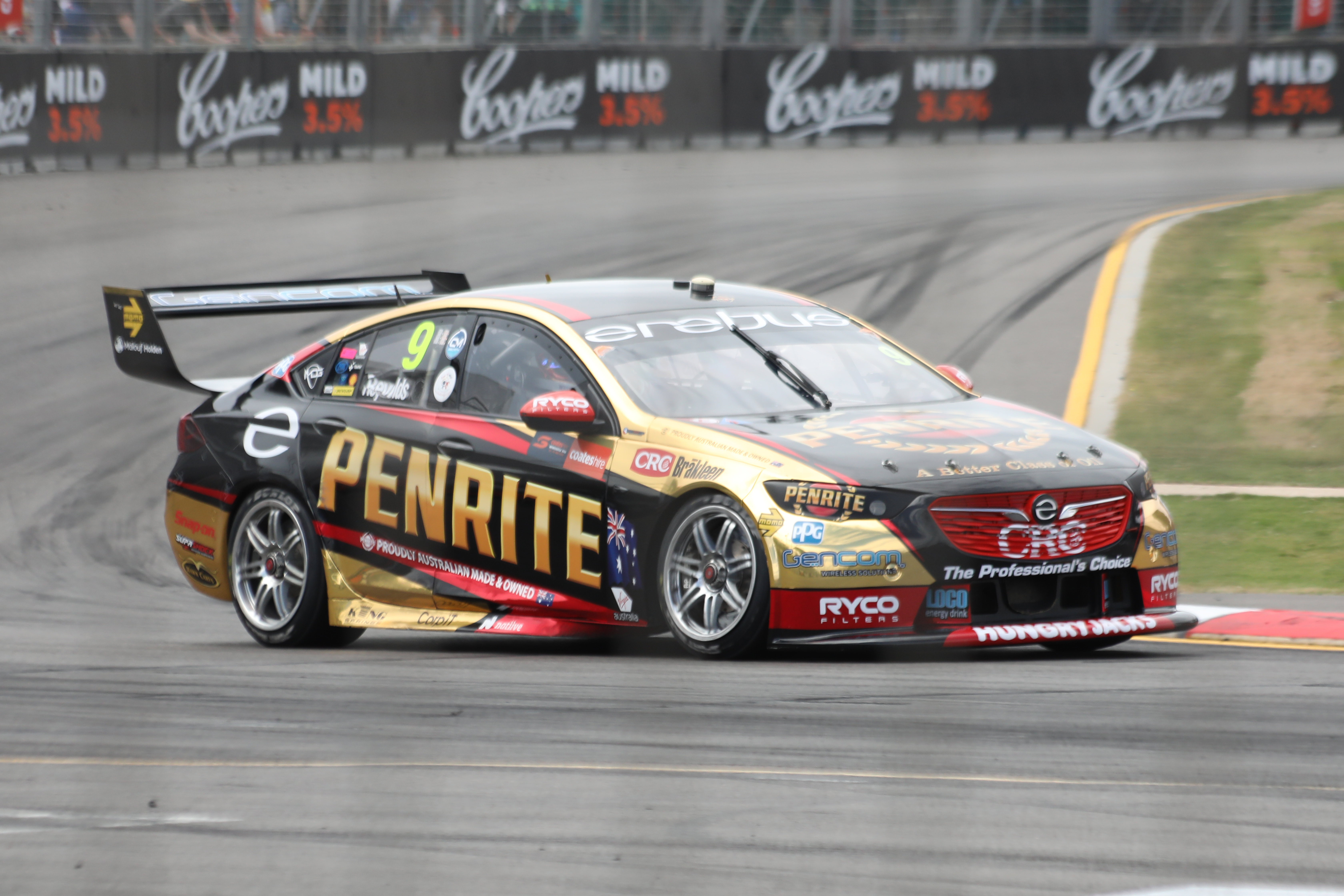 David Reynolds during Race 31 qualifying at the 2018 Coates Hire Newcastle 500.